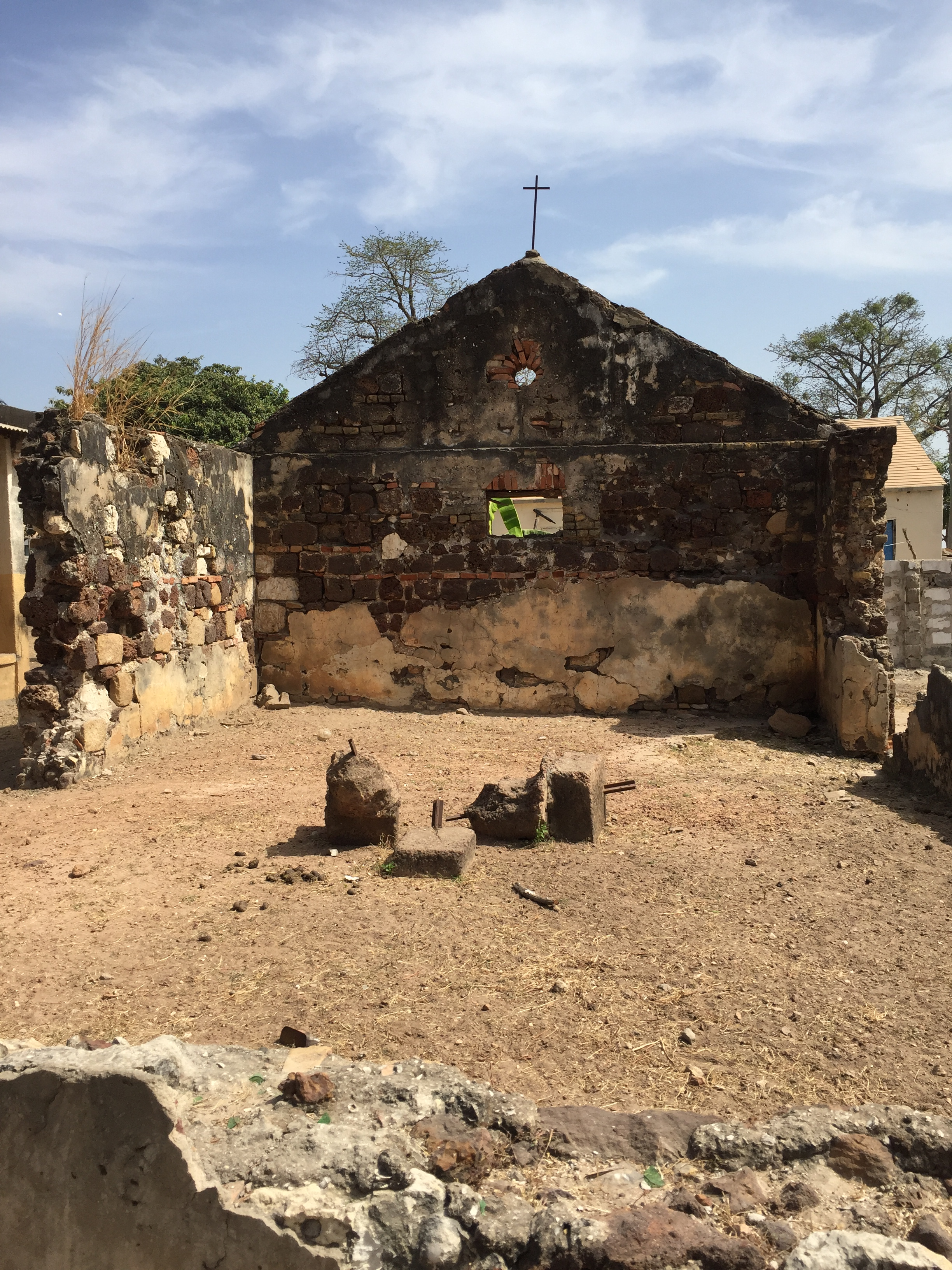 Portuguese Chapel in Albreda, The Gambia